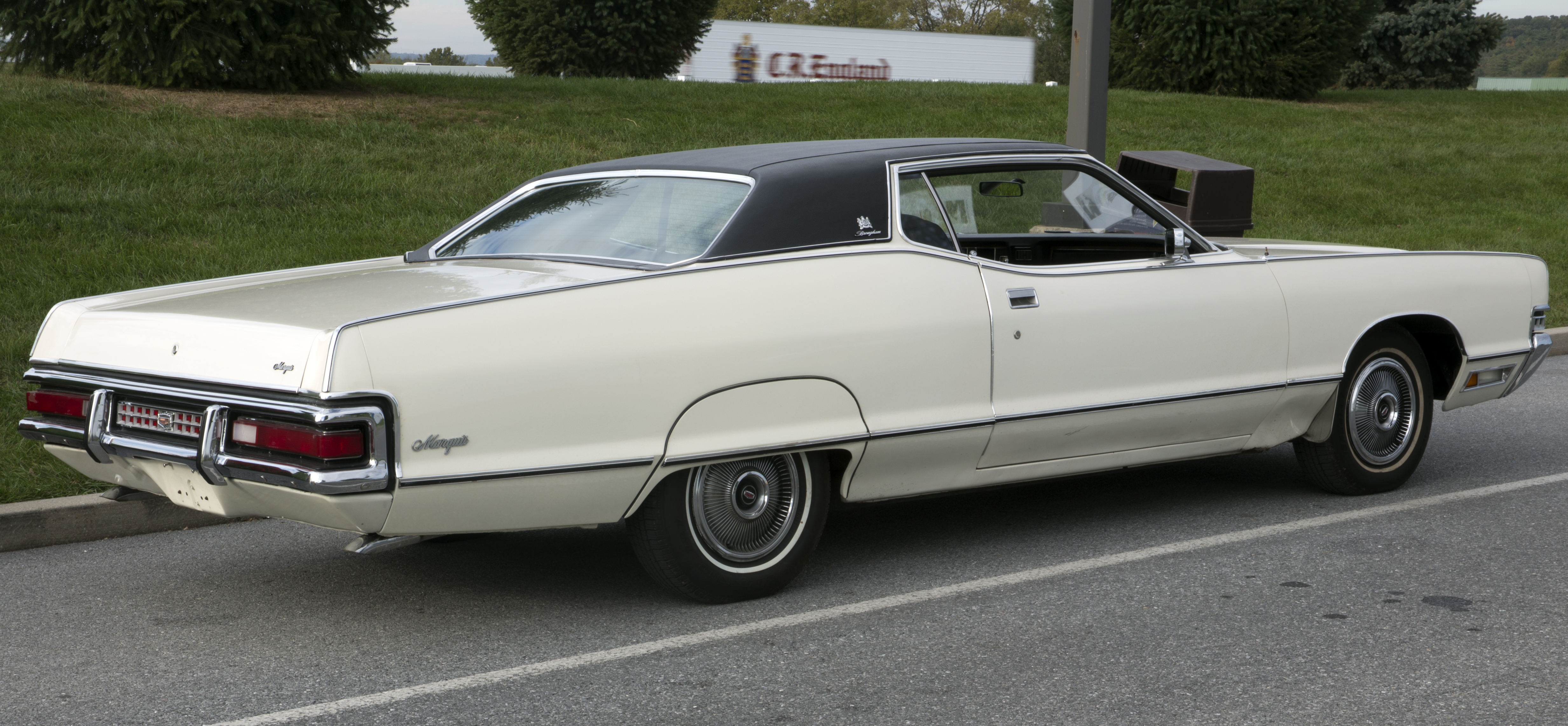 A 1972 Mercury Marquis Brougham two-door Hardtop Coupe displayed by a vendor at Hershey 2019. Sold new by Gladstone Lincoln-Mercury in December 1971 in Anchorage, Alaska, brought to Arizona with the original owner upon retirement. He kept it until 2016 at least. 429 V8, automatic